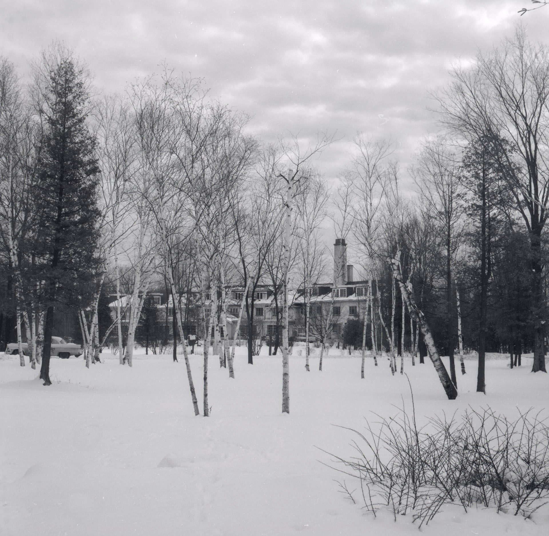 View of Guild Inn, 1956